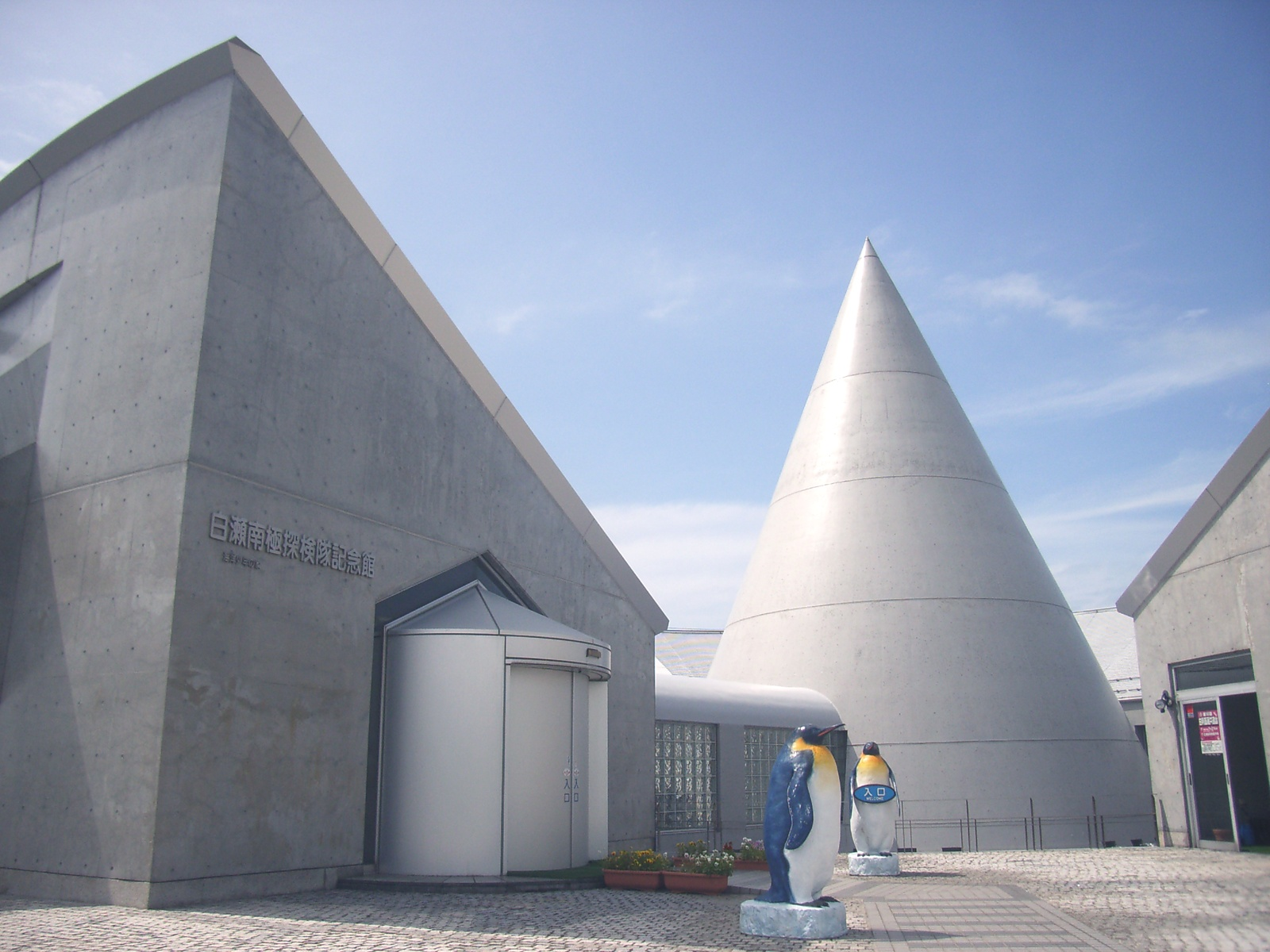 Shirase Antarctic Expedition Memorial Museum, This photo taken in July 13, 2007